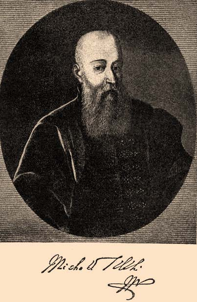 generál Teleki Mihály (1634-1690)